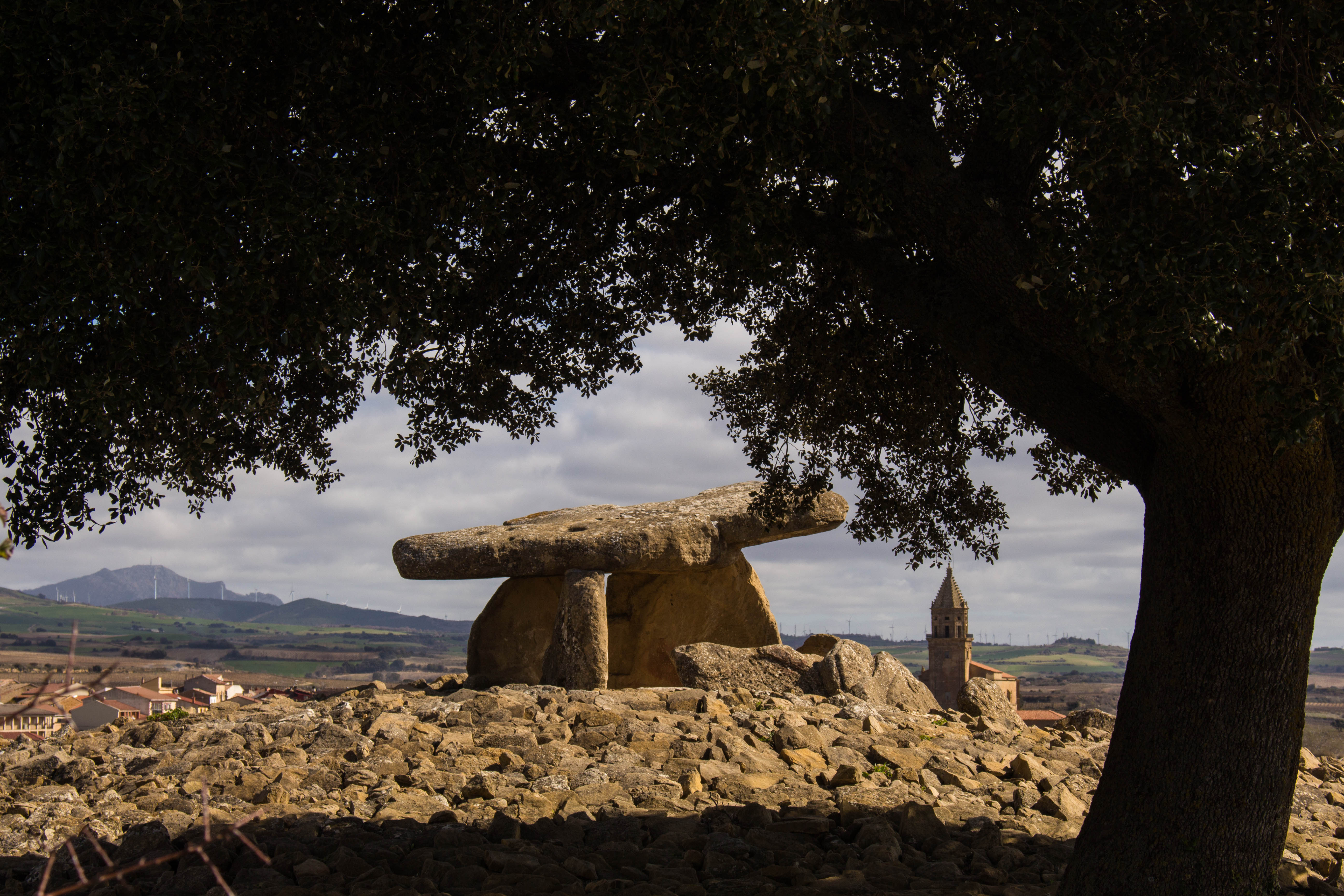 Picture of the famous dolmen of the Sorceress Txabola